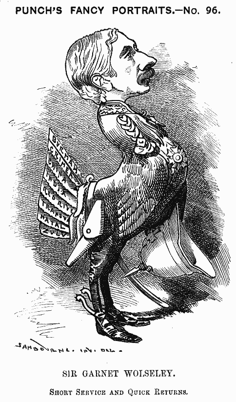 1882 caricature of Garnet Wolseley. Scanned from Punch, August 12 1882, page 70. Artwork by Edward Linley Sambourne